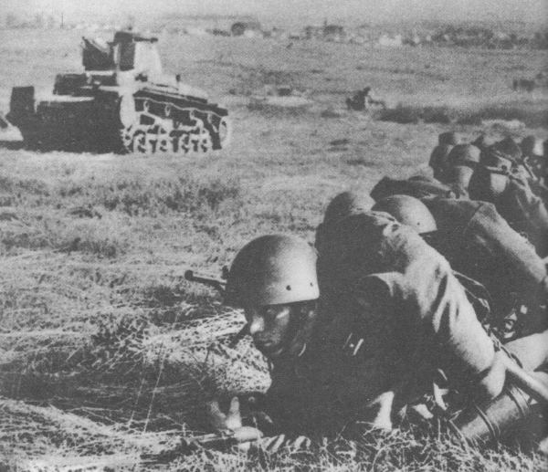 Military exercises Czechoslovak army